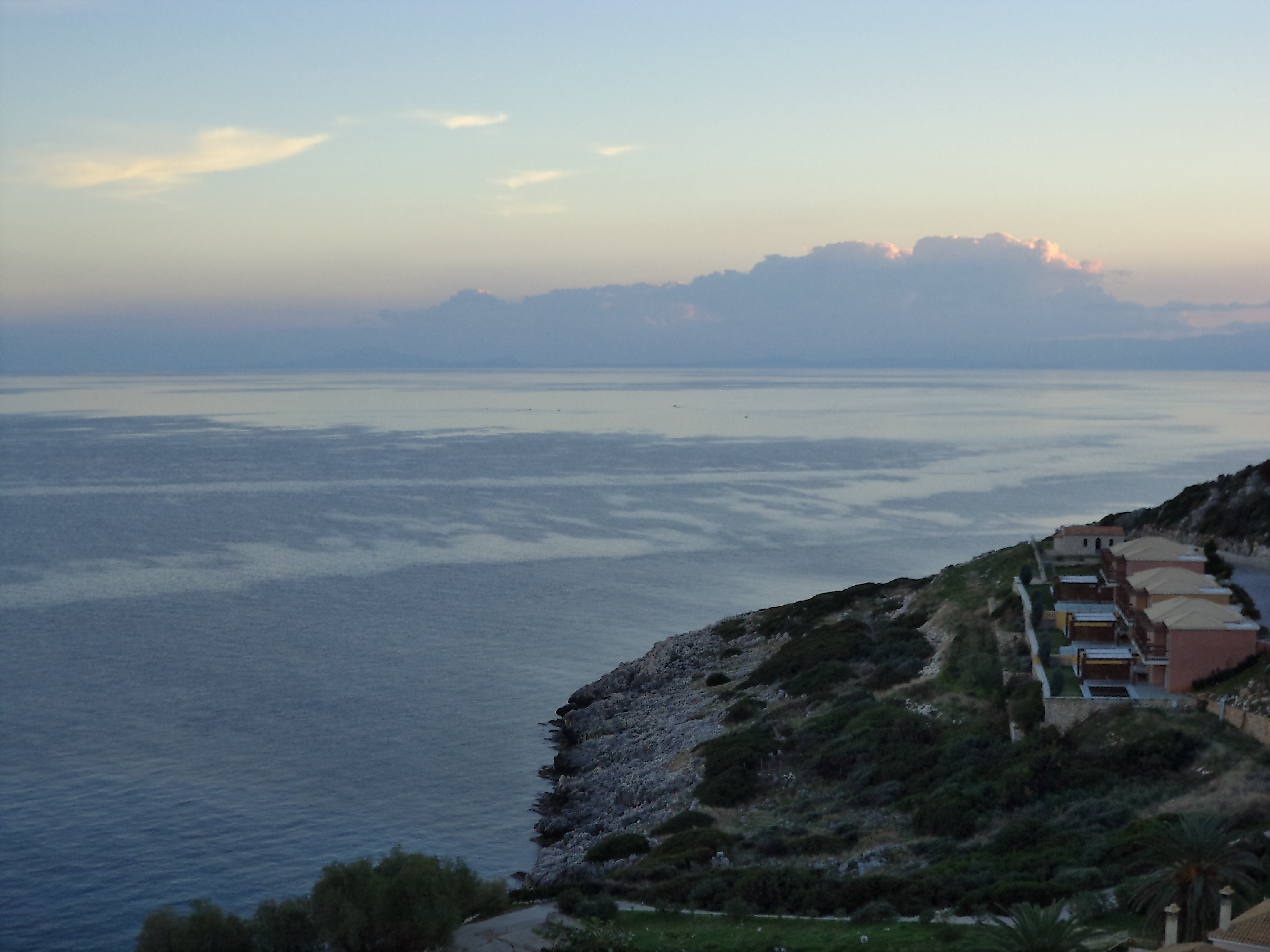 View of the Ionian Sea from Poros, Kefalonia.